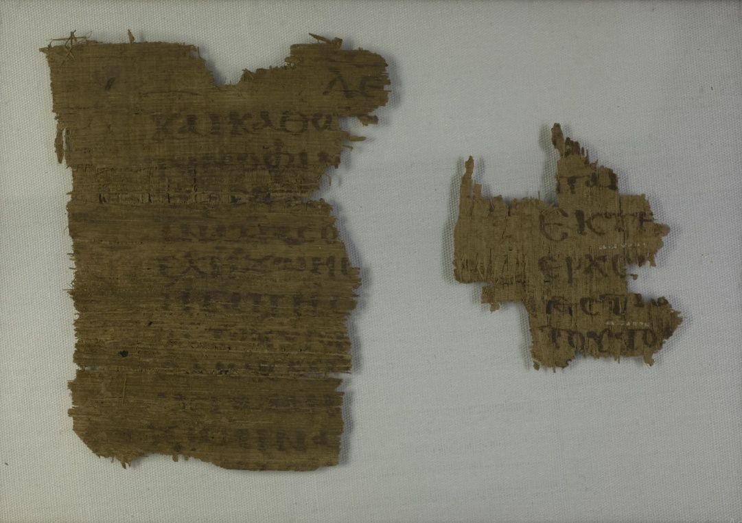 Papyrus 36 - Laurentian Library, PSI 3 - John 3,14-18.31-32.34-35 - recto